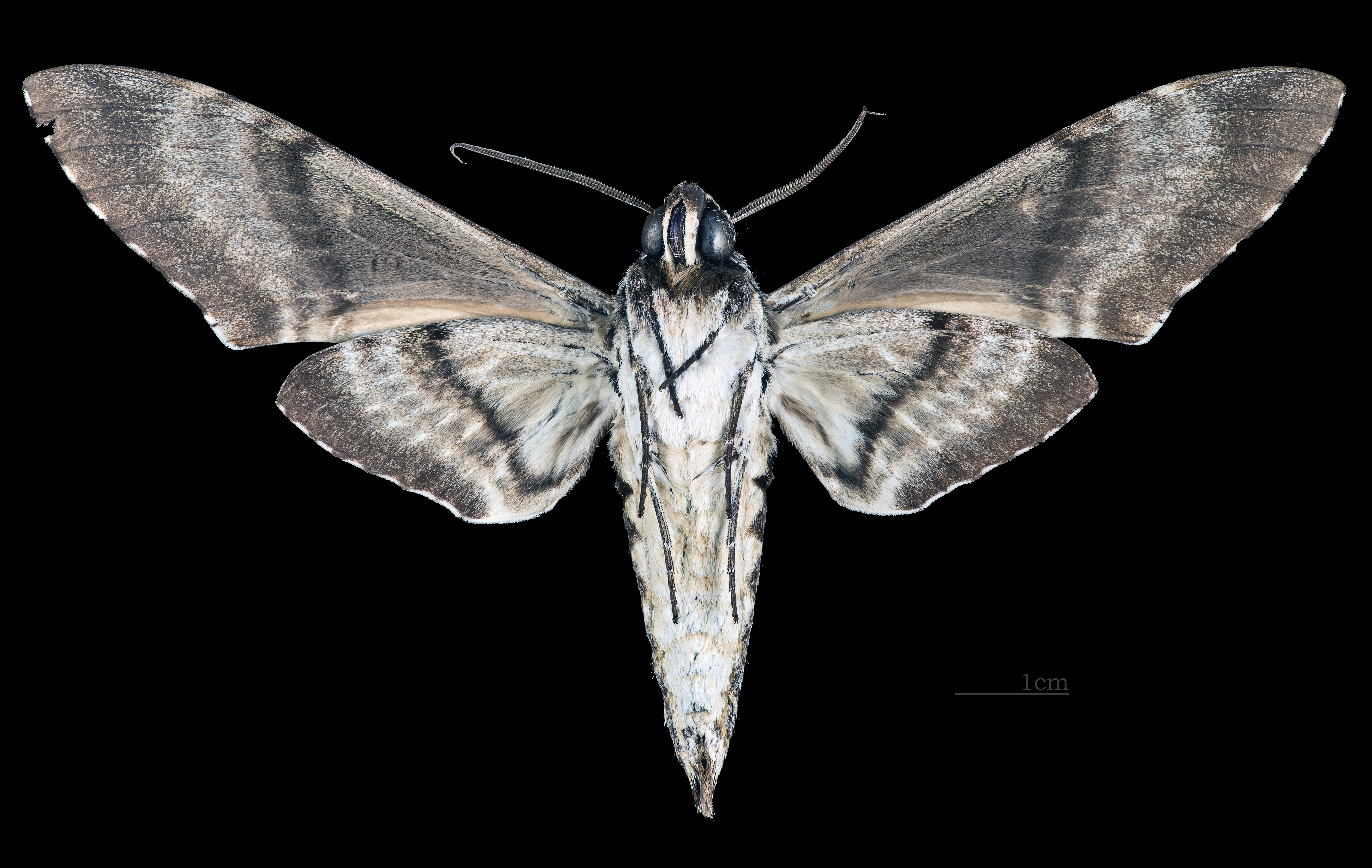 Manduca huascara - △ Ventral side Collection of the Mathematician Laurent Schwartz